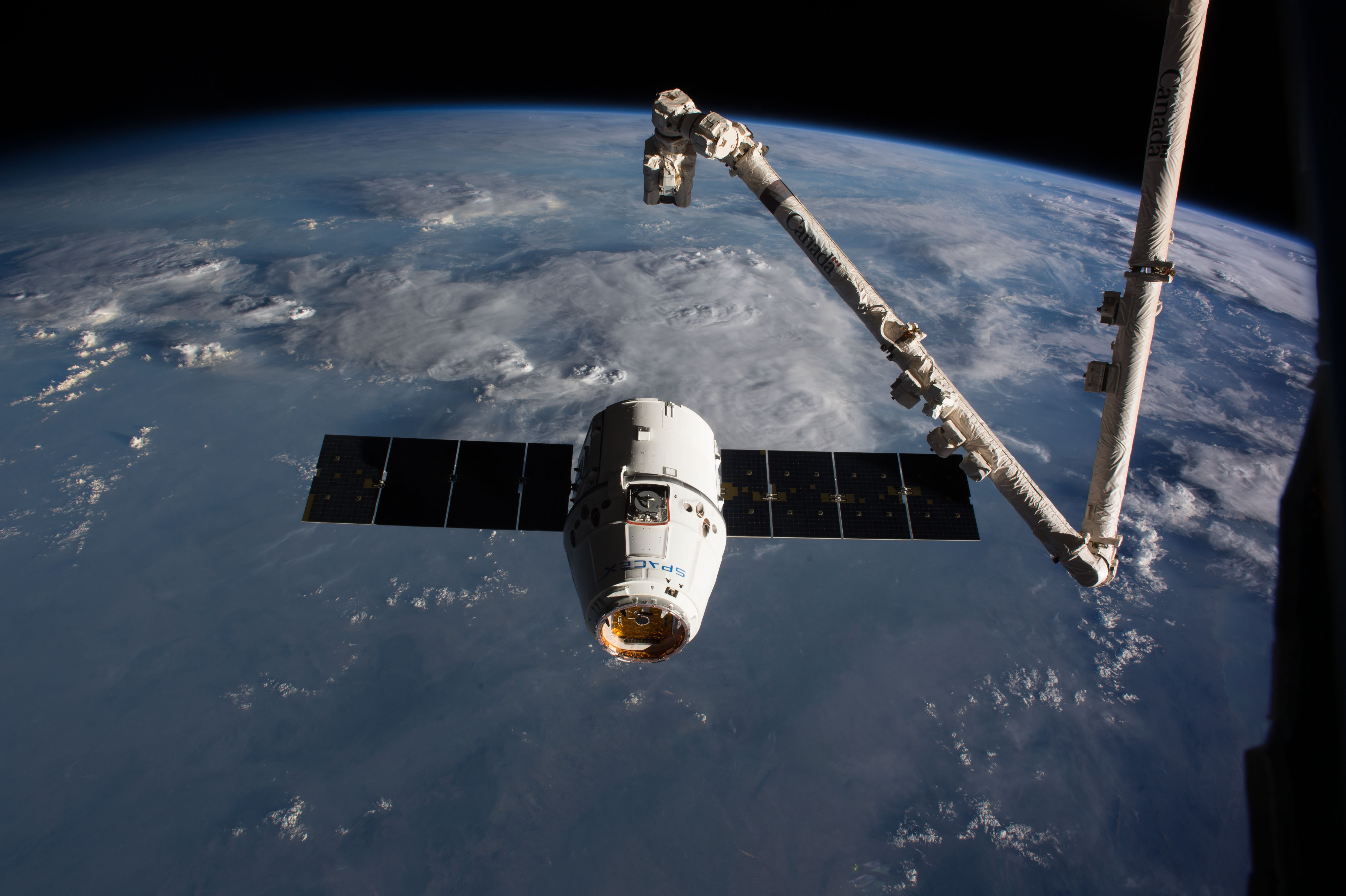 Iss050e052139 (02/23/2017) --- SpaceX's Dragon cargo craft is seen during final approach to the International Space Station. The commercial spacecraft launched on Feb. 19 and carried about 5,500 pounds of experiments and supplies to the orbiting laboratory. Expedition 50 crew members Thomas Pesquet and Shane Kimbrough used the station's Canadarm2 robotic arm to capture Dragon, then handed command over to ground controllers to attach Dragon to the station.